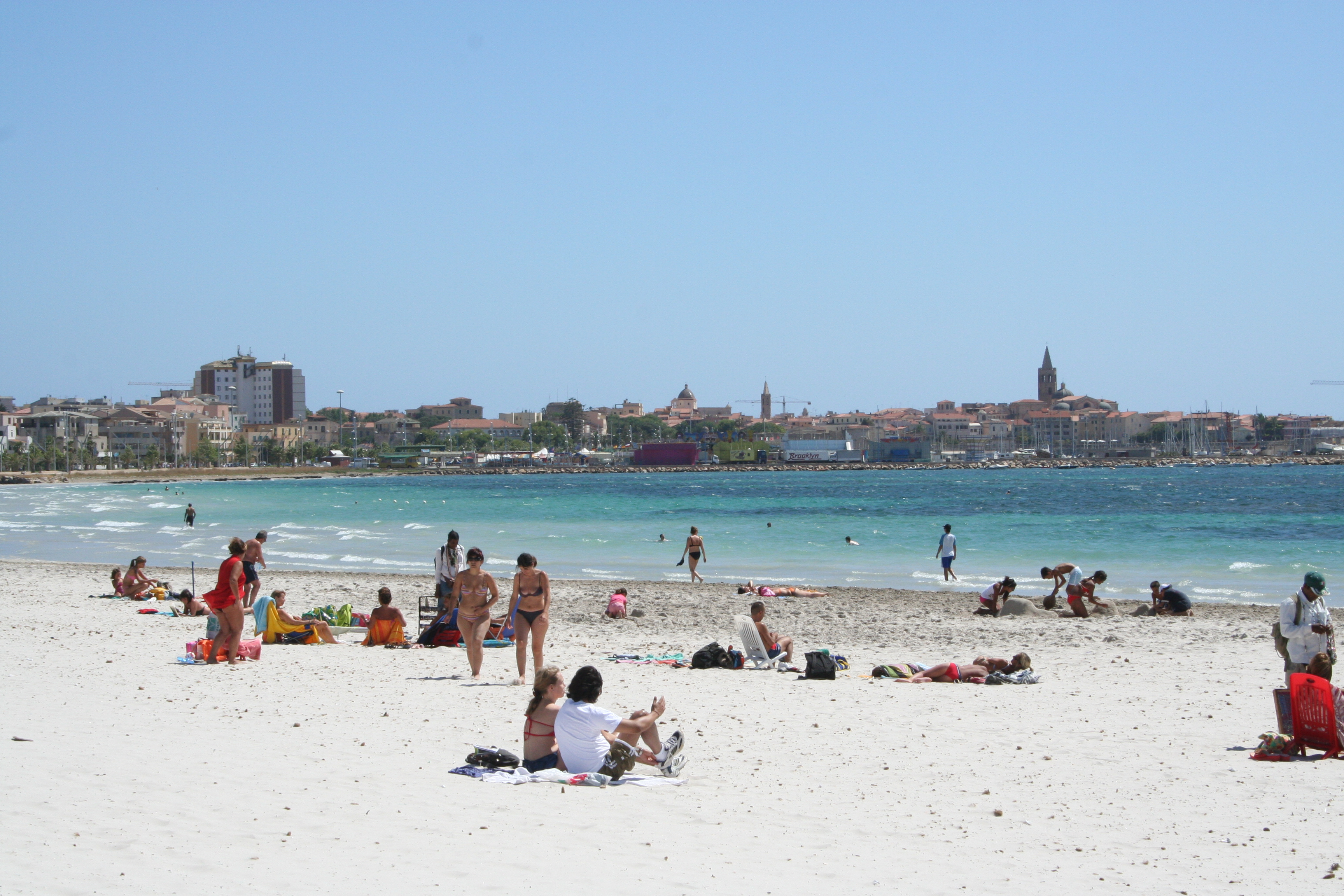 Alghero skyline and beach of Lido sardegna - sardinia